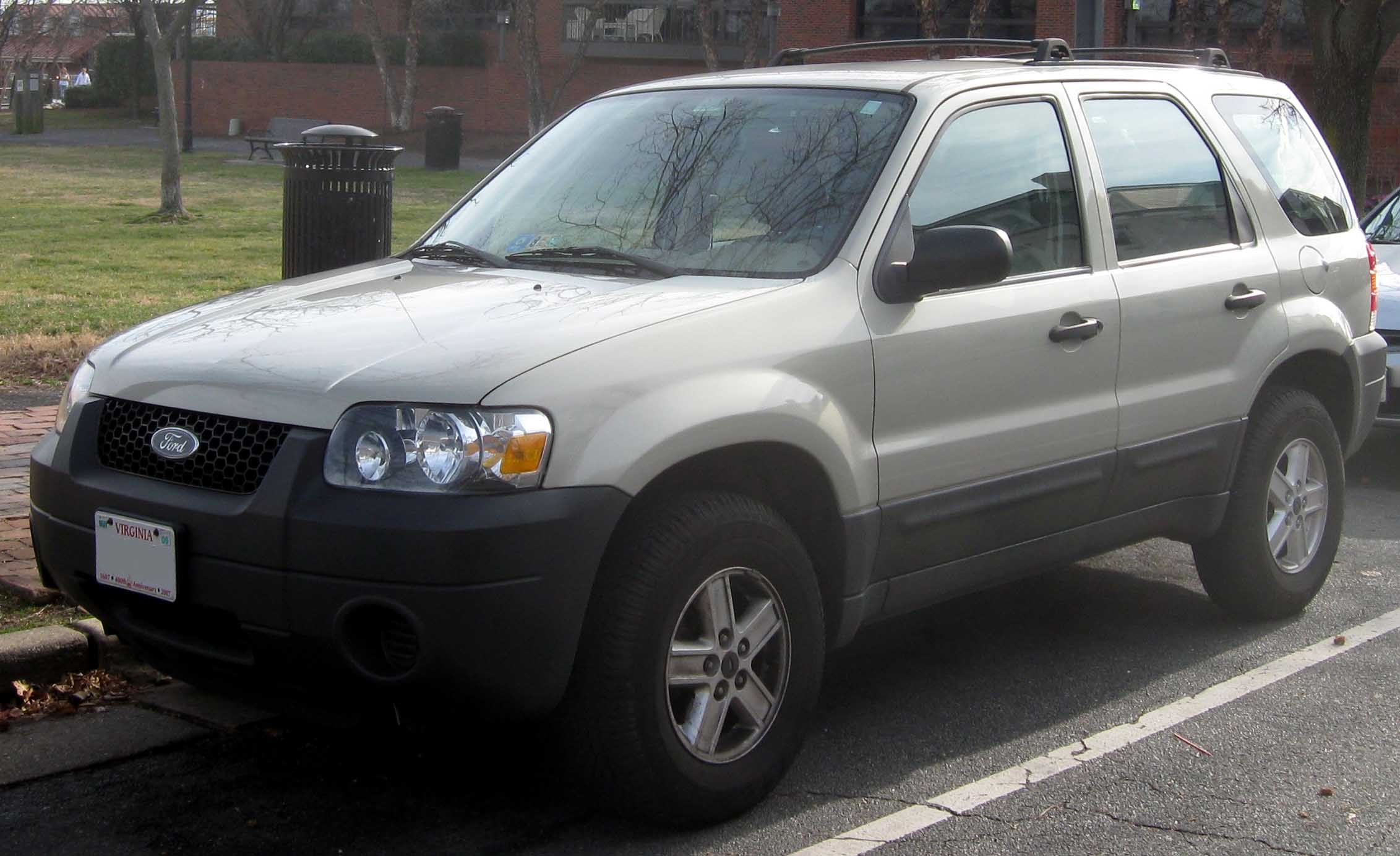 2005-2007 Ford Escape photographed in Alexandria, Virginia, USA.